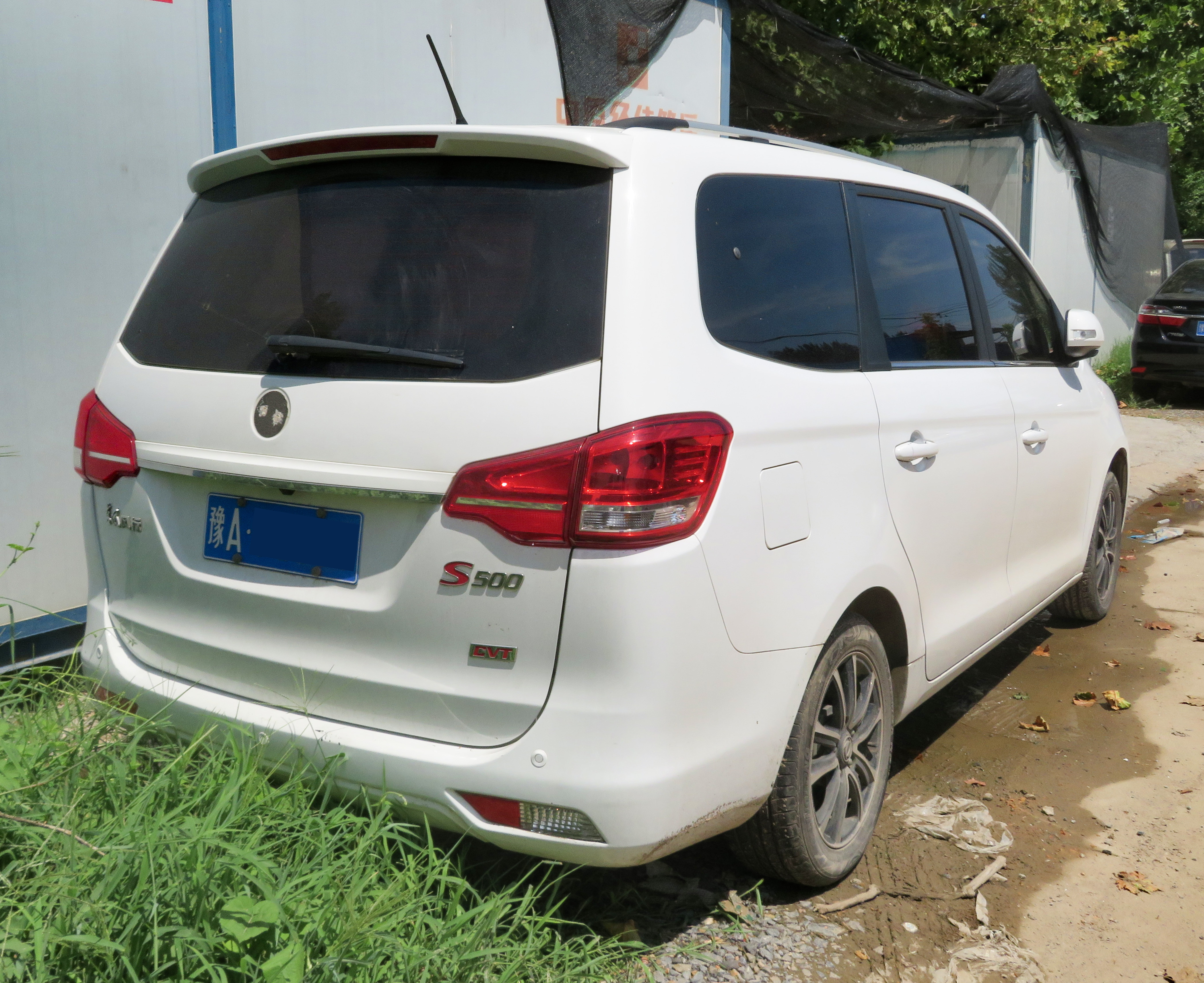 A 2016 Dongfeng-Fengxing S500 photographed at a used car market in Zhengzhou, Henan province, China